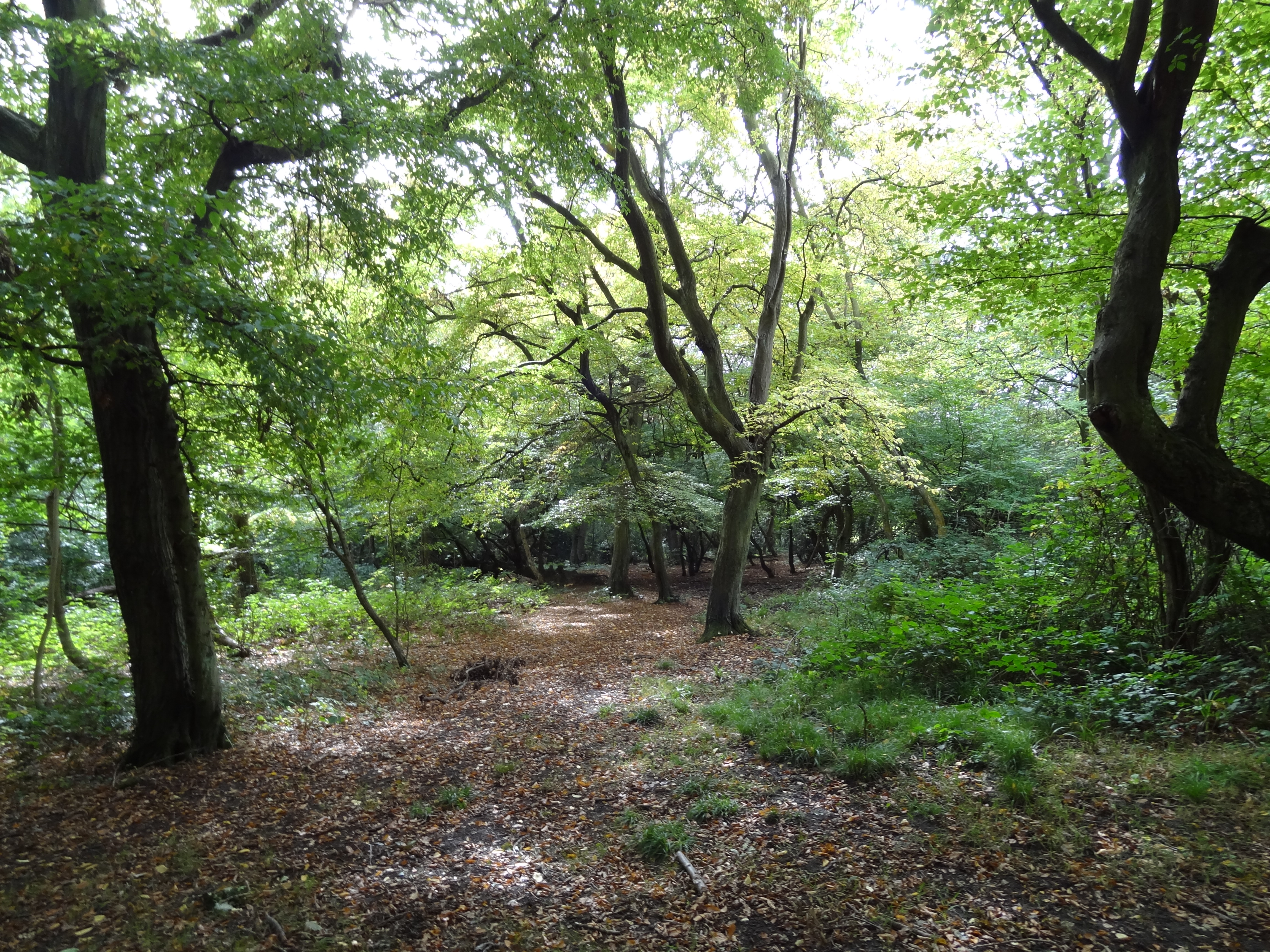 Heriot Wood, Bentley Priory nature reserve, Stanmore, Harrow, London